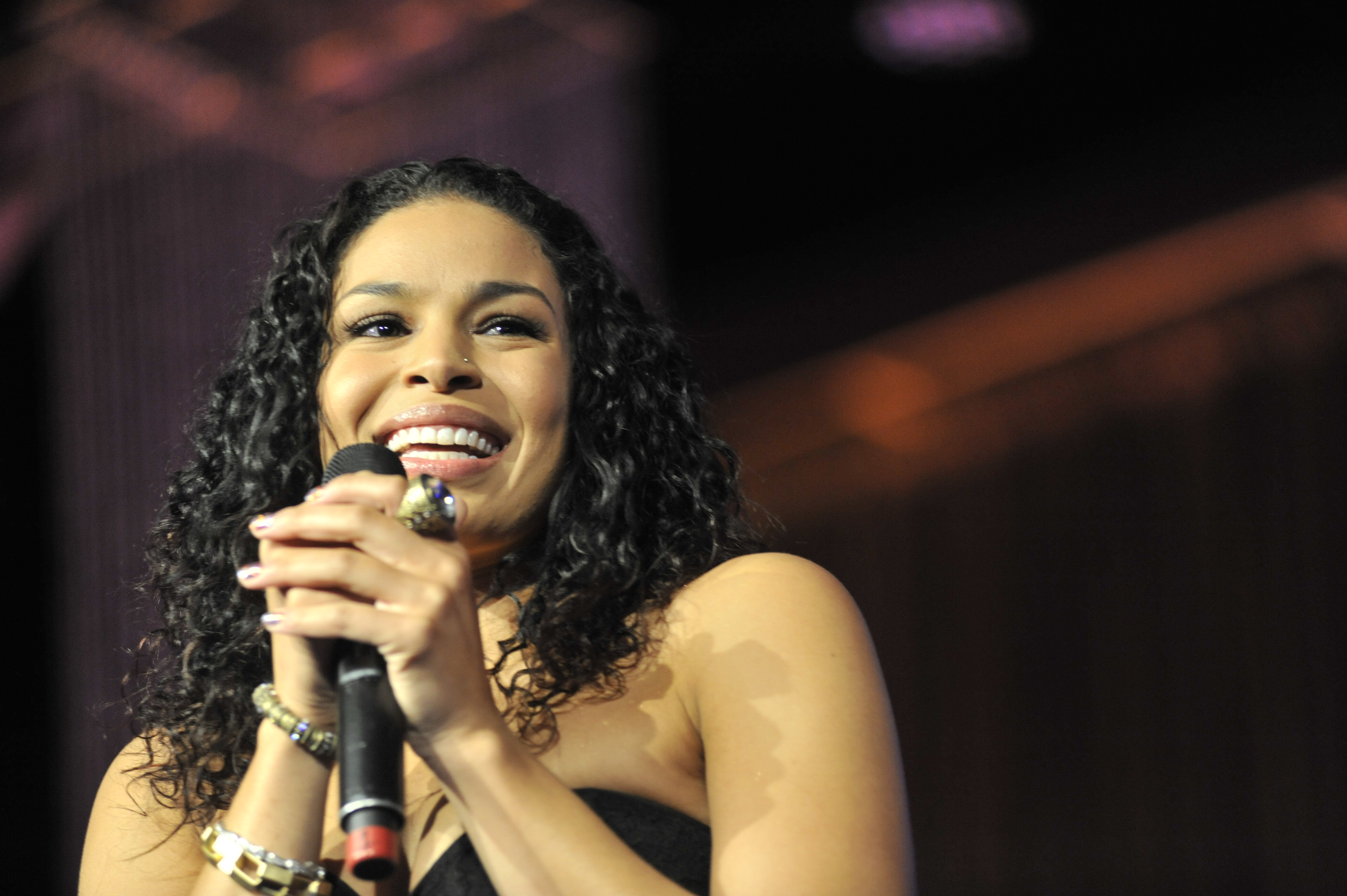 Jordin Sparks performs on stage during the 2012 USO Gala held at the Washington Hilton in Washington, D.C., November 2, 2012. (DoD Photo By Glenn Fawcett) (Released)